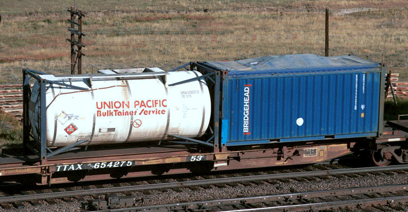 A railroad car with container loads.